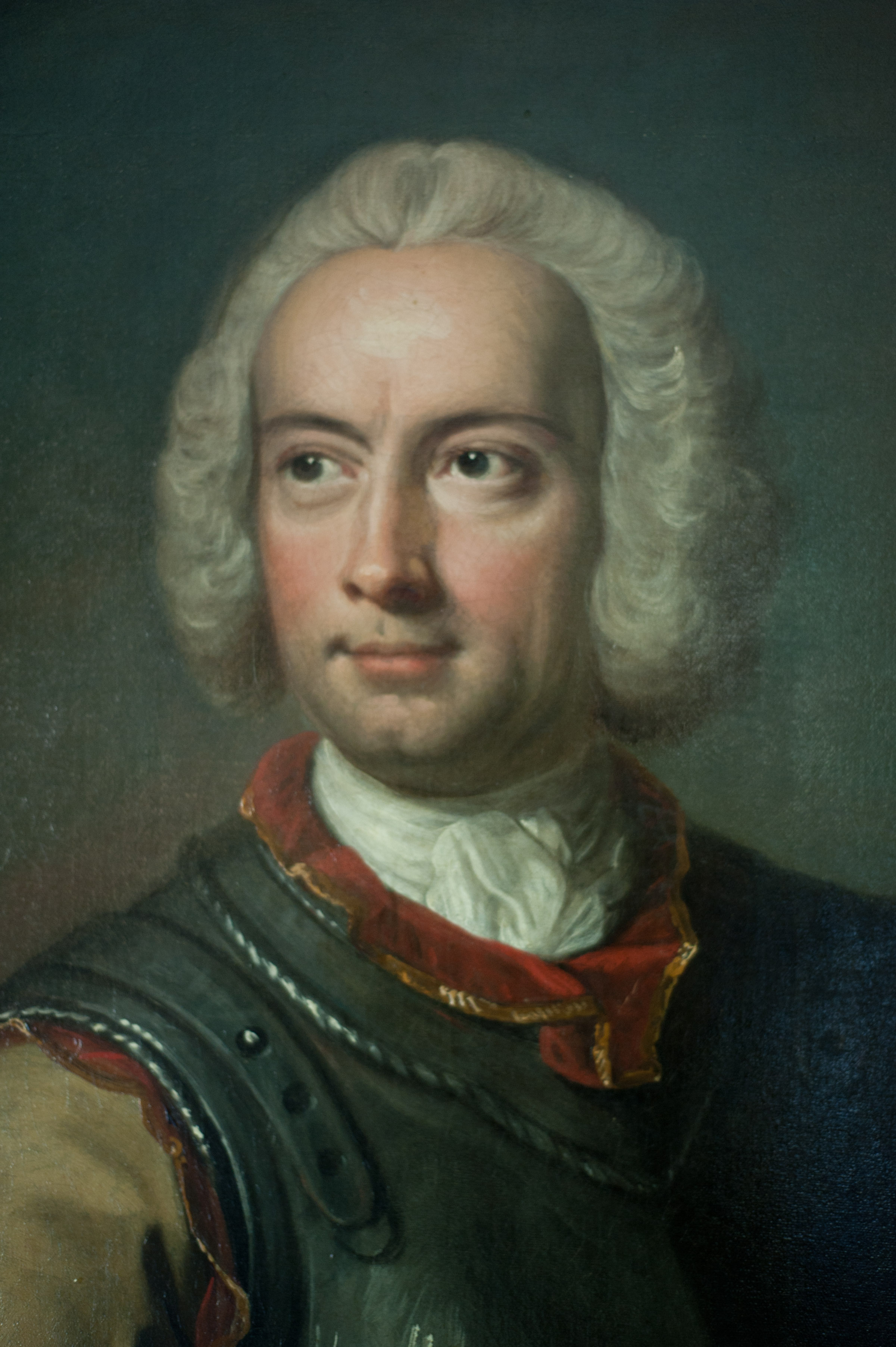 1748 after the Battle of Havana by Thomas Hudson